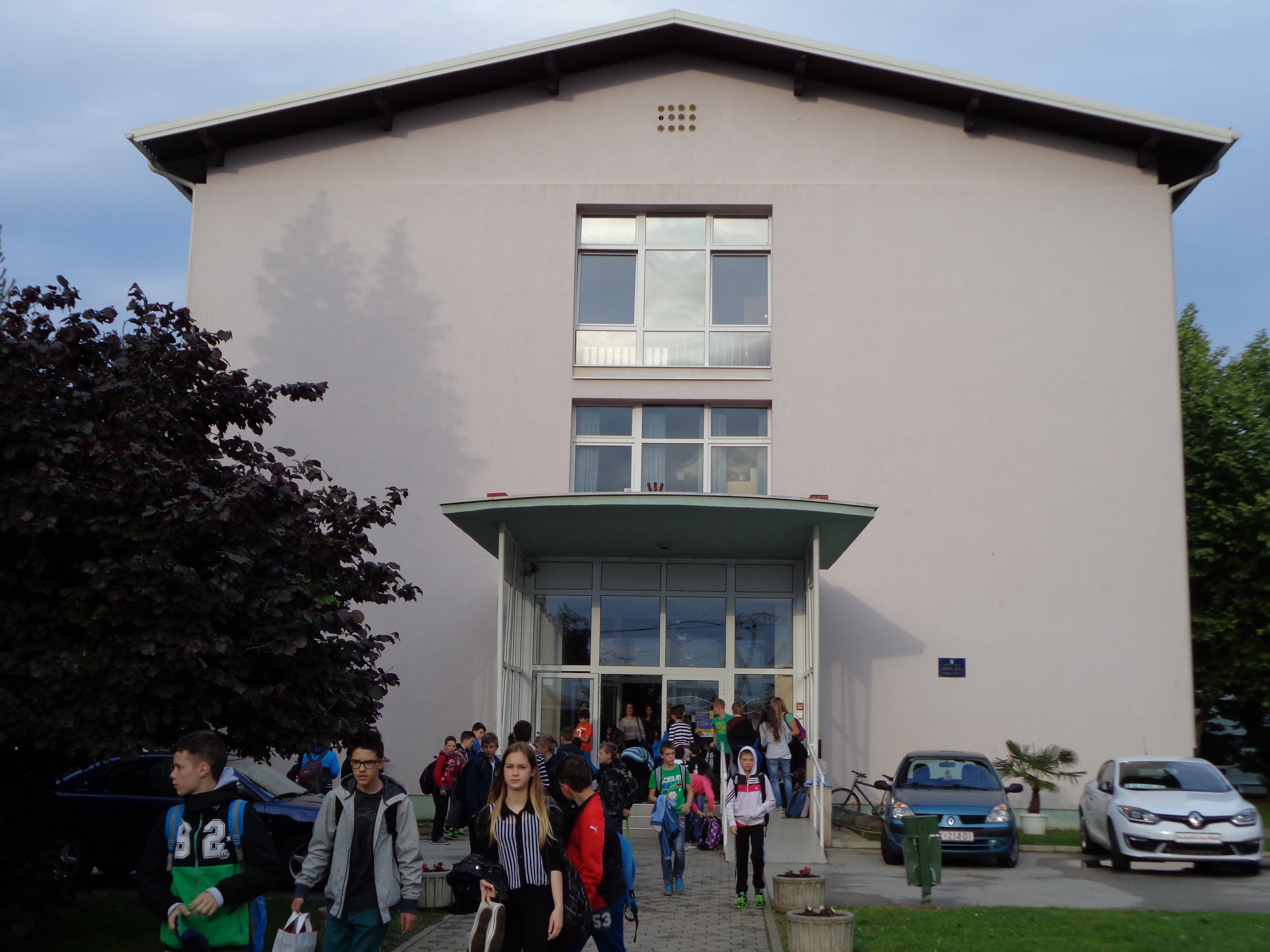 Elementary school in Mursko Središće, Međimurje County, northern Croatia - pupils going home after lessons